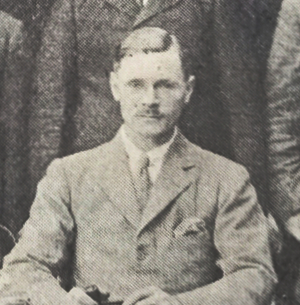 Entomologists at the first meeting in Pusa 1923 Fifth row (standing) Mukerjee, G.D.Ojha, Bashir, Torabaz Khan, D.P. Singh Fourth row (standing) M.O.T. Iyengar, R.N. Singh, S. Sultan Ahmad, G.D. Misra, Sharma, Ahmad Mujtaba, Mohammad Shaffi Third row (standing) Rao Sahib Rama Chandra Rao, D Naoroji, G.R.Dutt, Rai Bahadur C.S. Misra, SCJ Bennett (baceriologist, Muktesar), P.V. Isaac, T.M. Timoney, Harchand Singh, S.K.Sen Second row (seated) Mr M. Afzal Husain, Major RWG Hingston, Dr C F C Beeson, T. Bainbrigge Fletcher, P.B. Richards, J.T. Edwards, Major J.A. Sinton First row (seated) Rai Sahib PN Das, B B Bose, Ram Saran, R.V. Pillai, M.B. Menon, V.R. Phadke (veterinary college, Bombay)